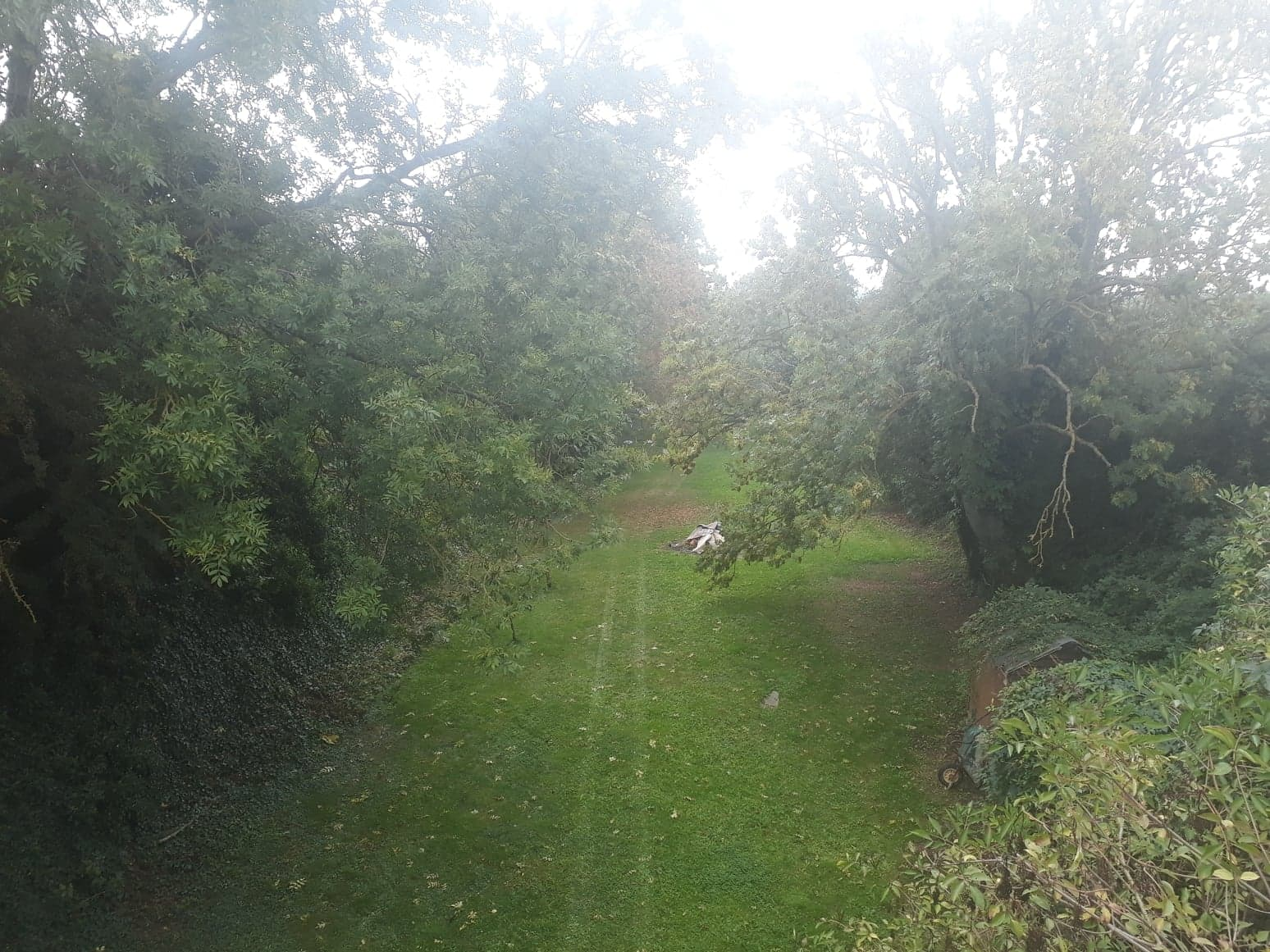 My own